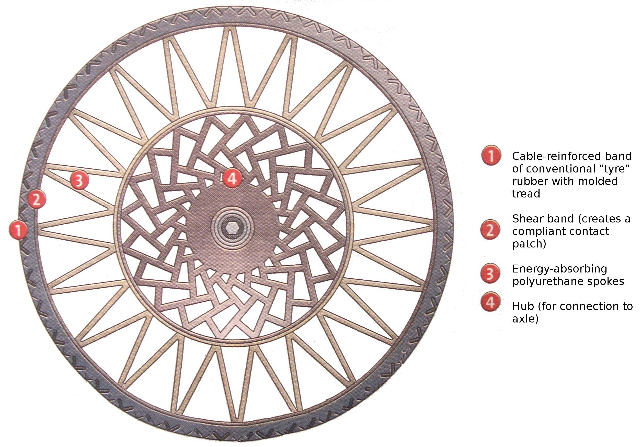 A schematic of a Tweel tyre design. This Tweel tyre design was the original design as developed by Michelin. The schematic was based on an image from "Plaza weekend", 26 March 2005.